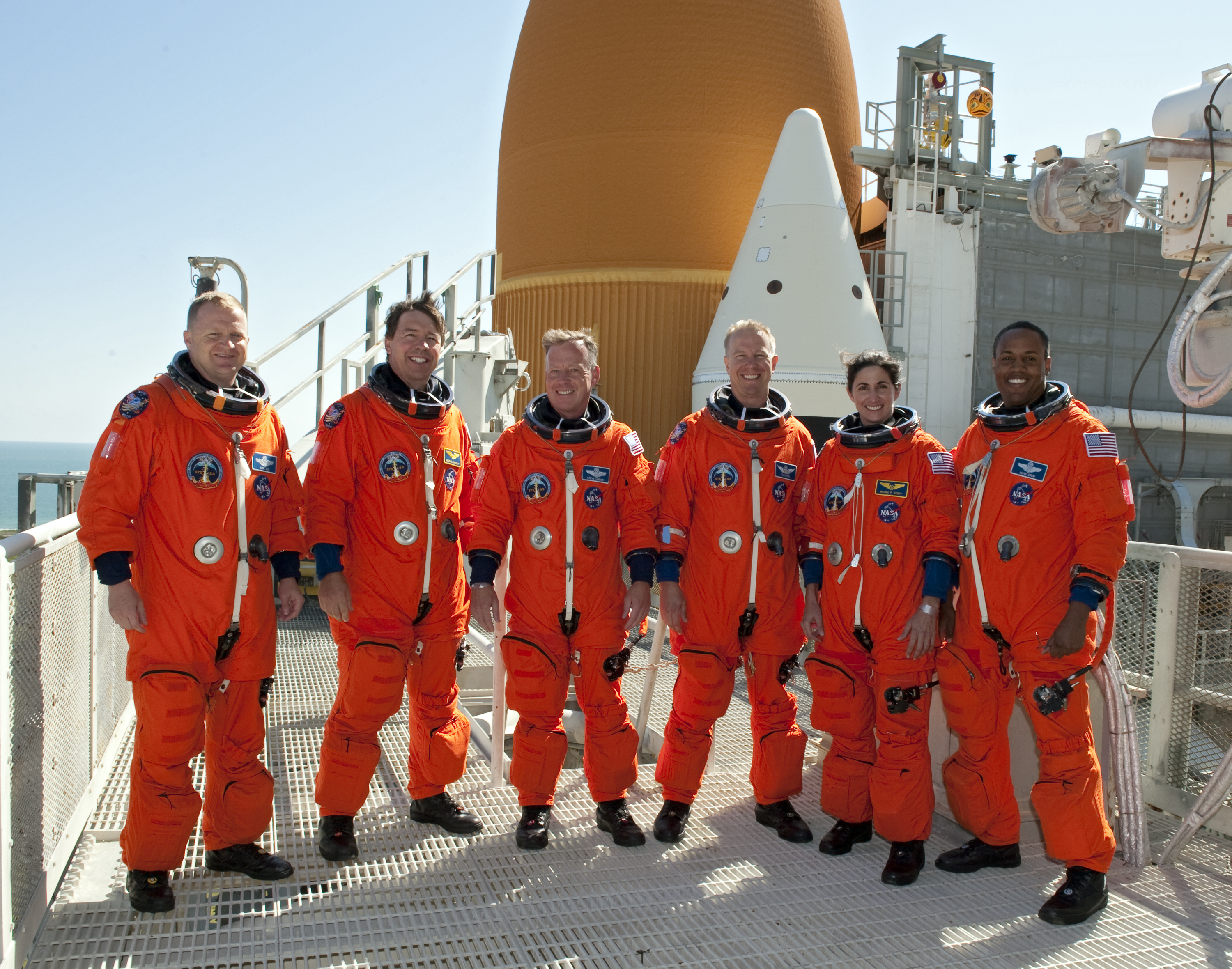 CAPE CANAVERAL, Fla. -- At NASA's Kennedy Space Center in Florida, the STS-133 crew takes a break from a simulated launch countdown and simulated pad emergency to take a group photo on the 195-foot level of Launch Pad 39A. From left are, Pilot Eric Boe, Mission Specialist Michael Barratt, Commander Steve Lindsey, and Mission Specialists Tim Kopra, Nicole Stott, and Alvin Drew. The simulations are part of a week-long Terminal Countdown Demonstration Test (TCDT). Discovery and its STS-133 crew will deliver the Permanent Multipurpose Module, packed with supplies and critical spare parts, as well as Robonaut 2, the dexterous humanoid astronaut helper, to the International Space Station. Launch is targeted for Nov. 1 at 4:40 p.m. For more information on the STS-133 mission, visit